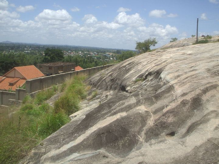 Rock outcrop in foreground, Arua townscape in background, seen from Arua Hill — in the Arua District, Northern Region of Uganda.